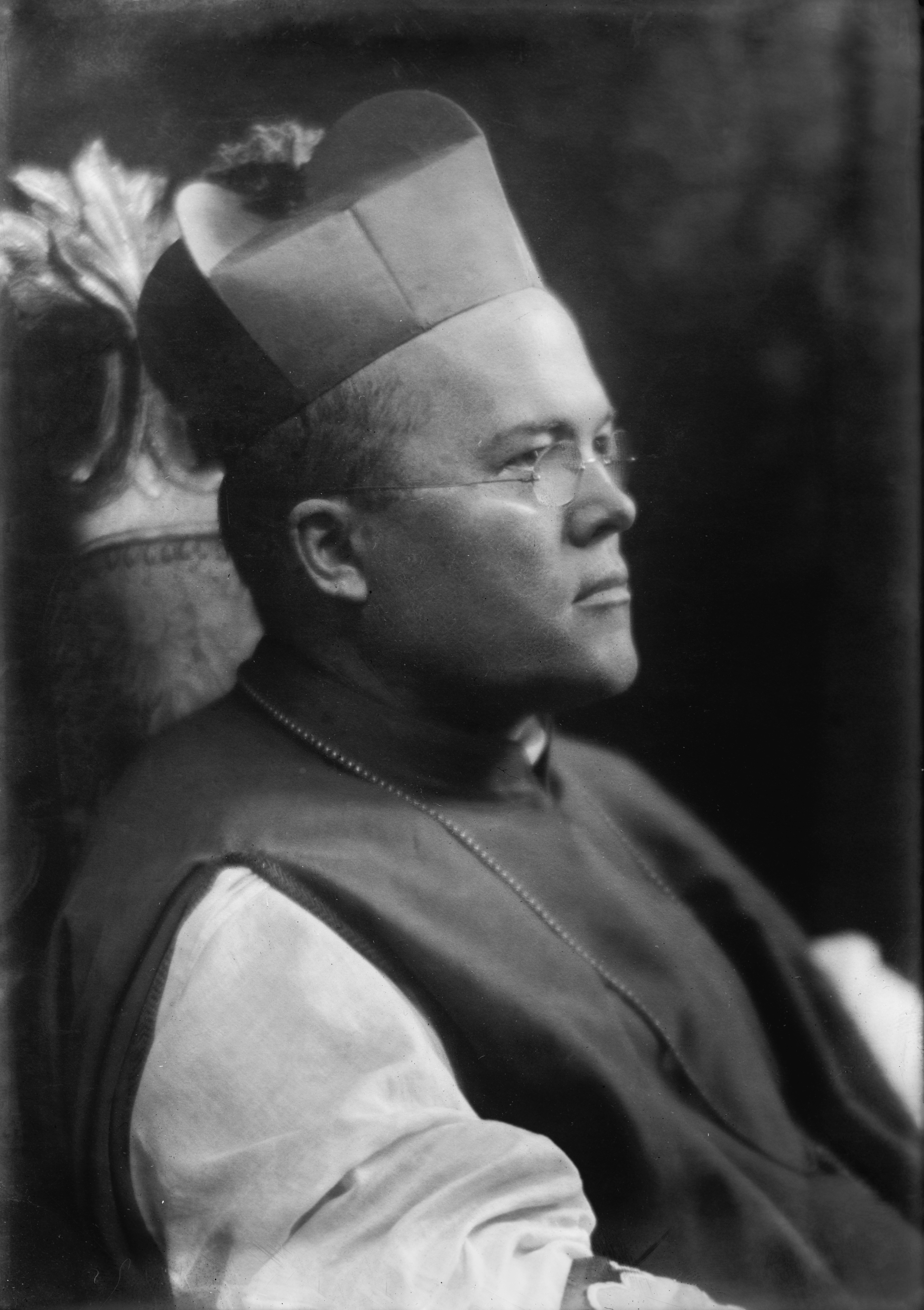 Dennis Joseph Dougherty circa 1918